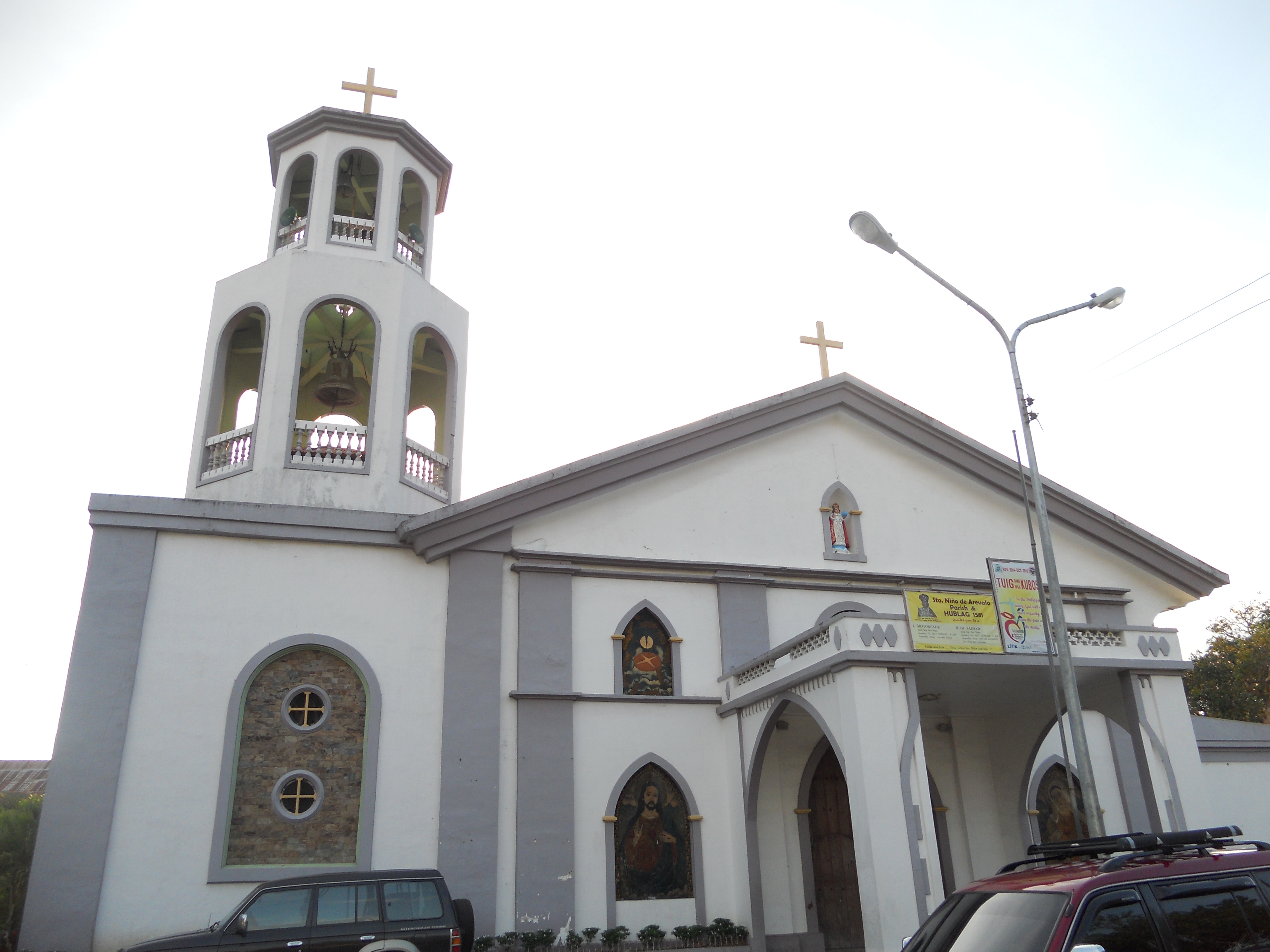 Villa Arevalo Church